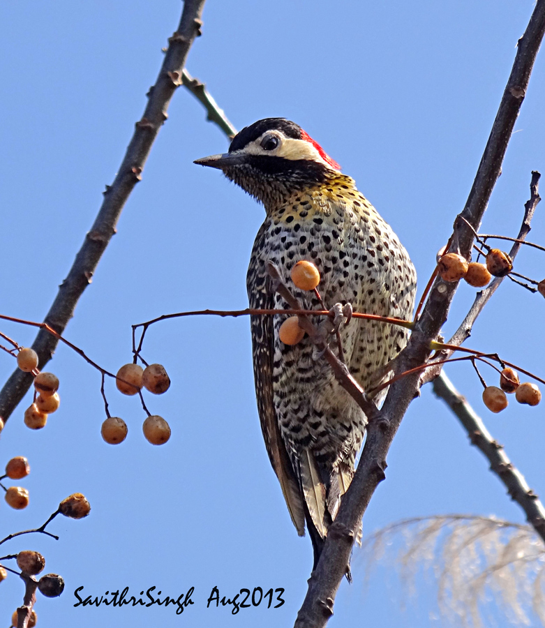 Birds clicked by me when on a visit to Buenos Aires in August 2013 for the Creative Commons Global Meet.